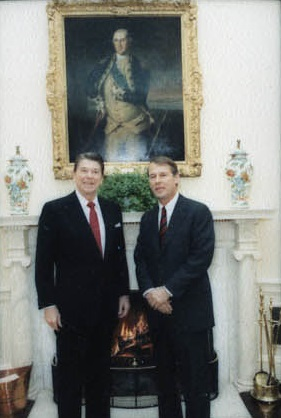 Walter L. Cutler, Ambassador to Saudi Arabia, poses with Ronald Reagan in the Oval Office.